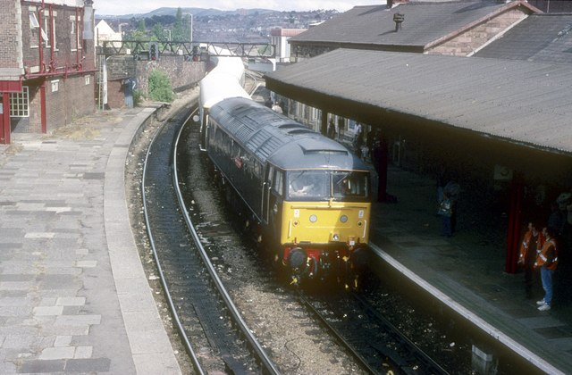 Newport station special for Ebba Vale , near to Newport/Casnewydd, Great Britain. A special train for Ebbw Vale (then on a freight only railway) waits at Newport station